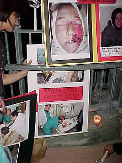 Rachel Corrie memorial. Michael Hess, editor of BBS News, said: That would be fine Martin. Please include the phrase "BBSNews File Photos. Used With Permission." Thanks for the interest.